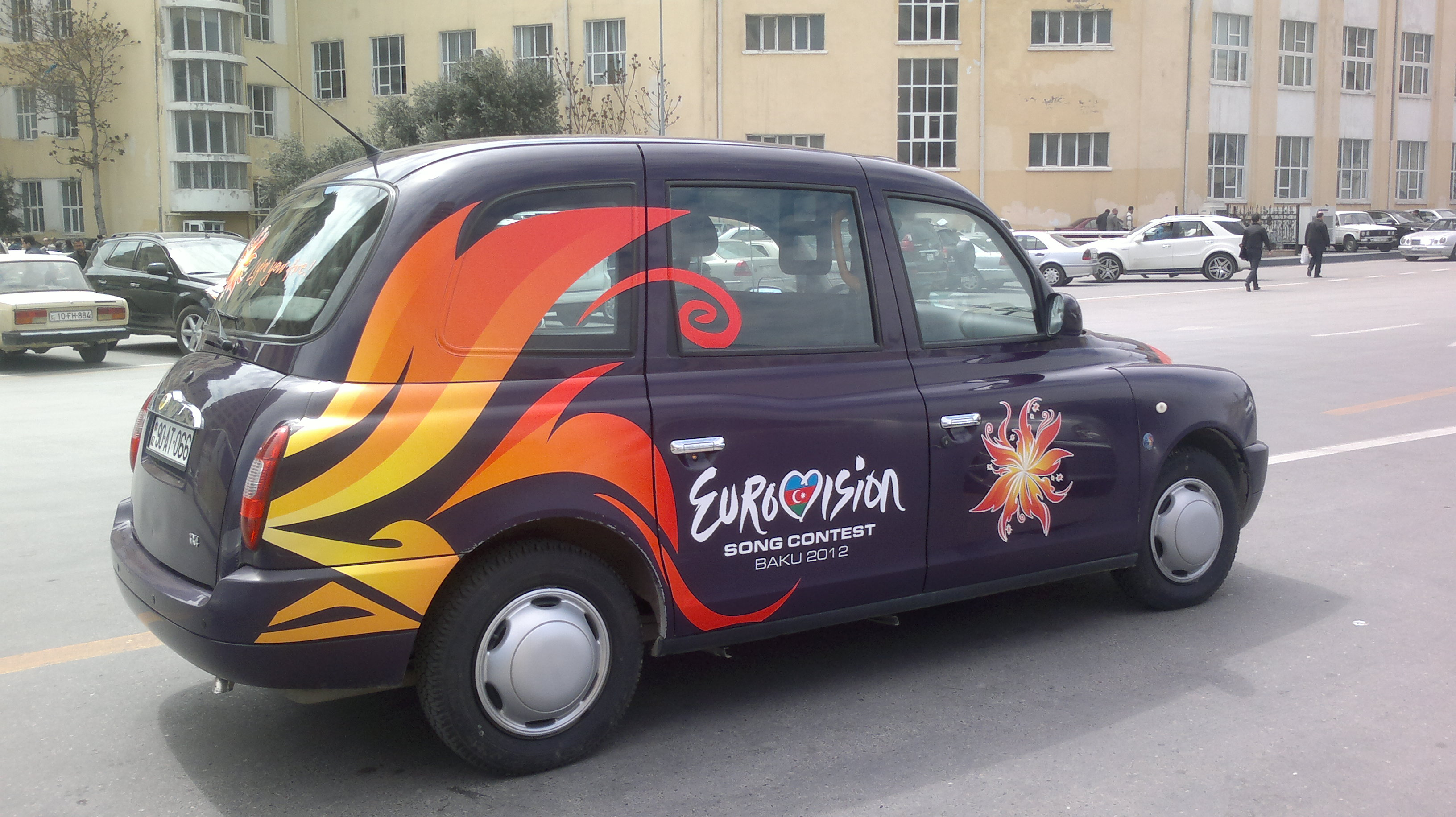 Baku taxi with Eurovision 2012 logo